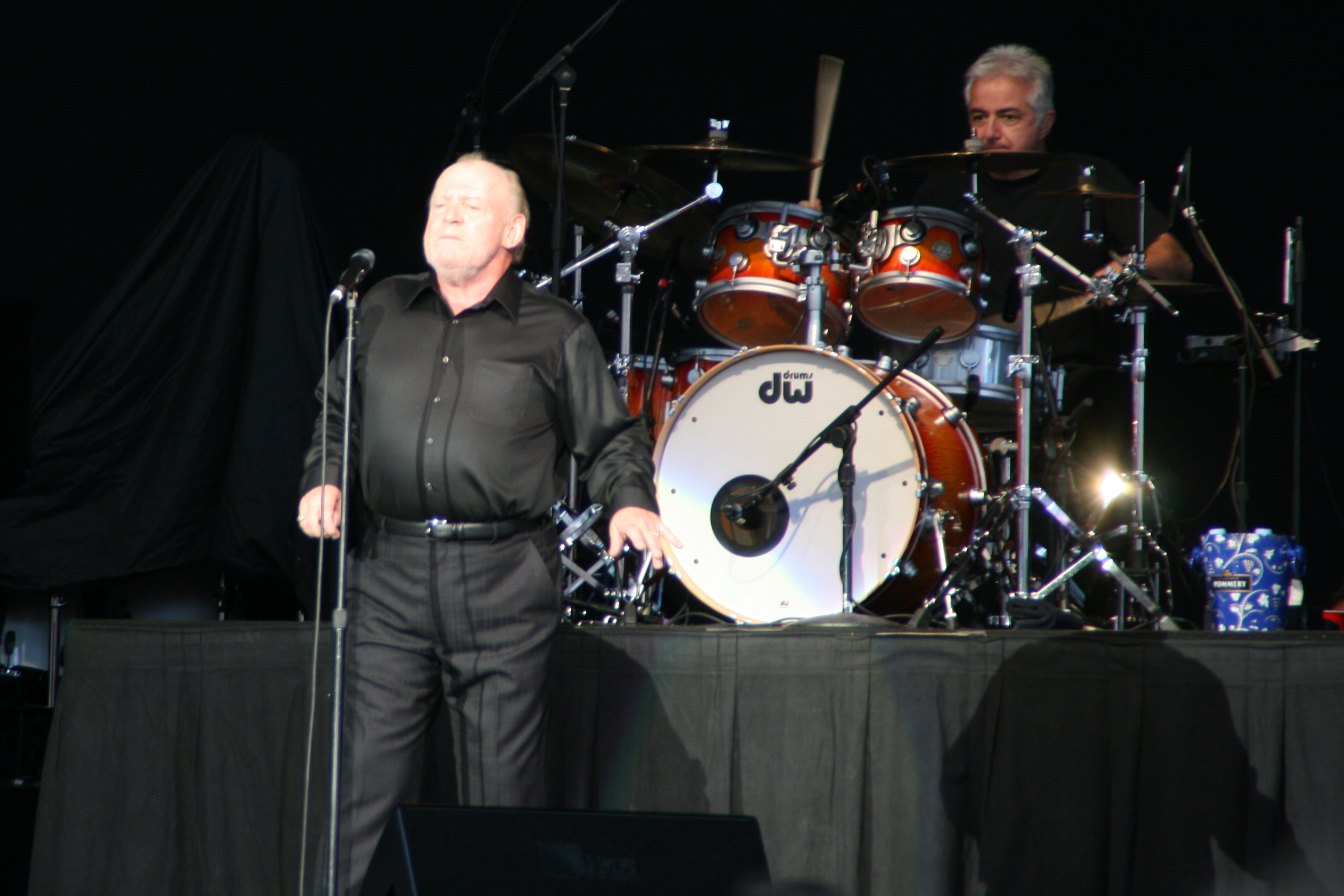 Joe Cocker at Amphitheatre at Encore Park in Alpharetta